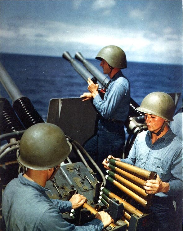 USS Alaska (CB-1): Crew of a 40mm quad antiaircraft machine gun mount loading clips into the loaders of the left pair of guns. Taken on 6 March 1945, during the Iwo Jima operation. The man at the right is Seaman Second Class Richard Roberts, and the gun captain (in the phone talker's helmet) is Gunner's Mate Second Class Glenn F. Groff.